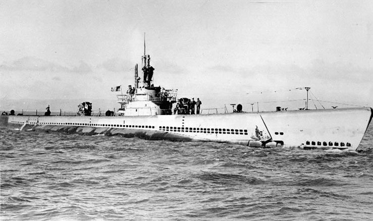 Photo of the U.S. Navy Balao-class submarine USS Archerfish (SS-311) near San Francisco on 5 June 1945.